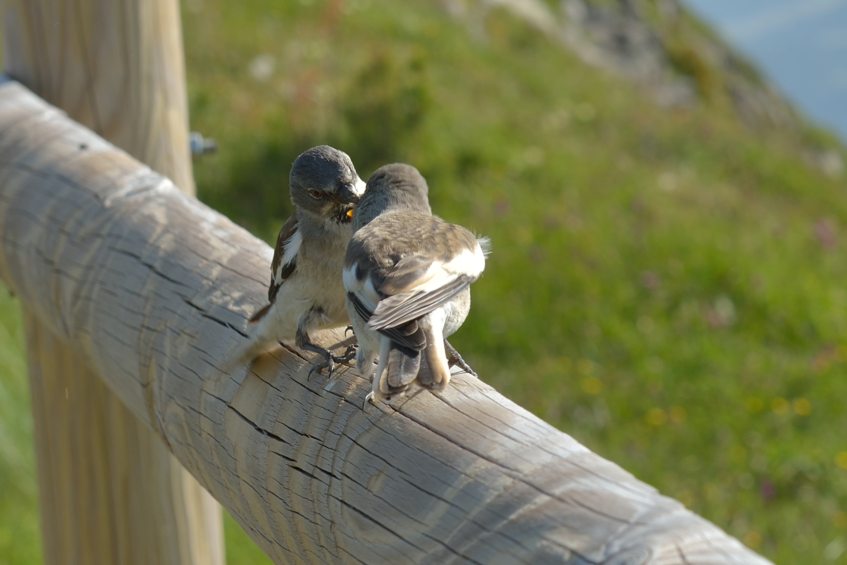 White-winged snowfinch, feeds babybird. On mount Secëda in Val Gardena - altitude 2450 mslm